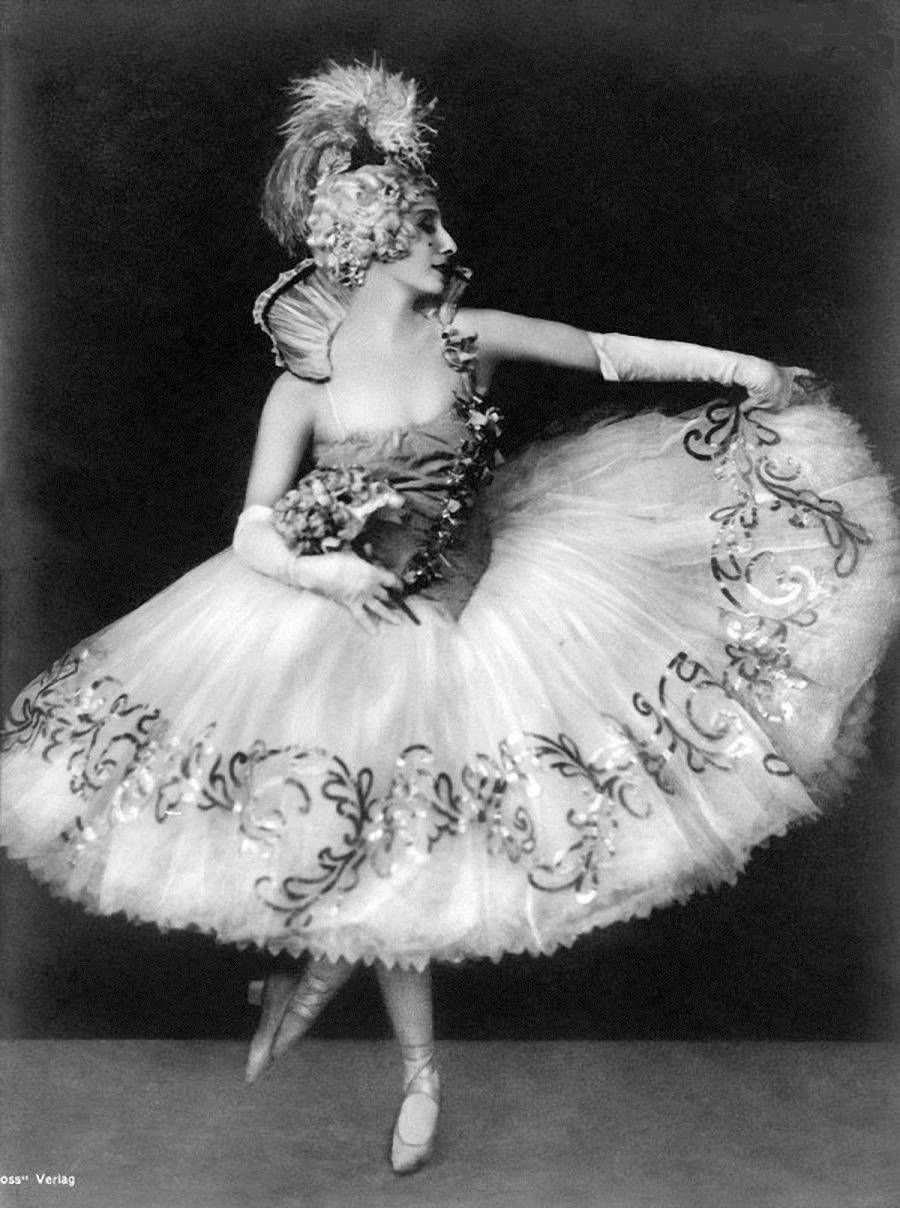 Russian prima ballerina Anna Pavlova in During tha Ball. Berlin, 1928.